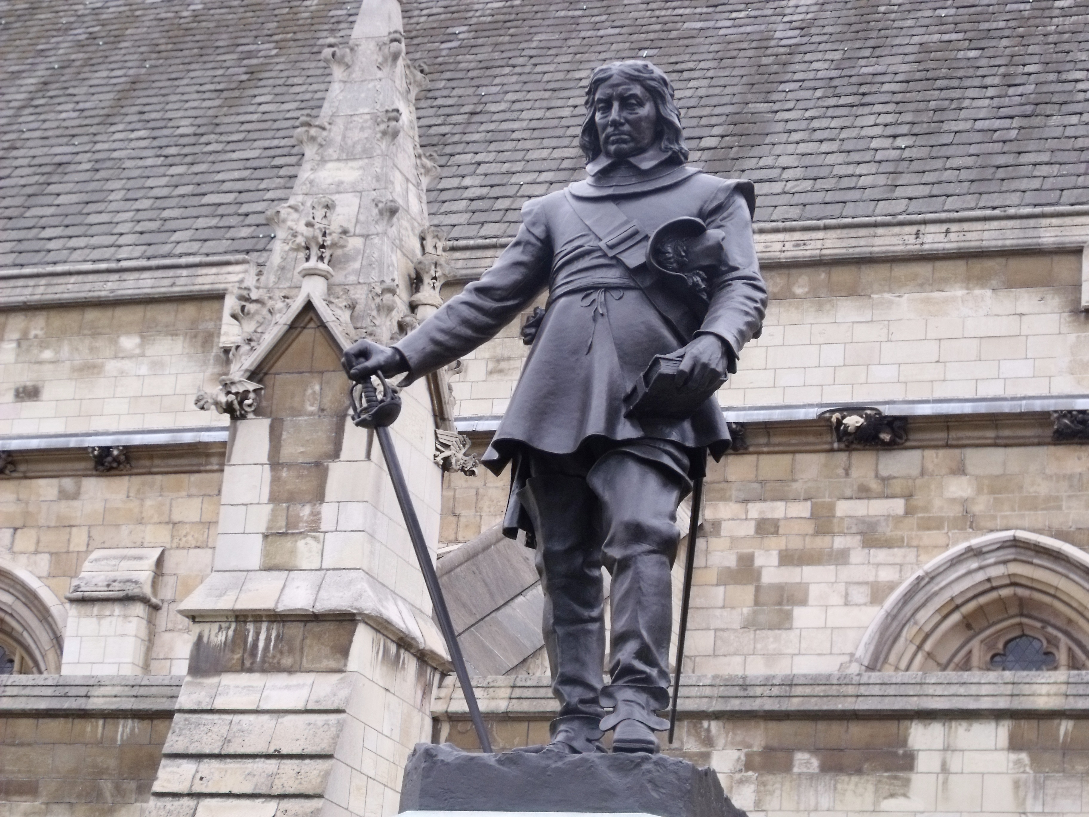 This is a statue of Oliver Cromwell outside the Palace of Westminster. It is in front of Westminster Hall.